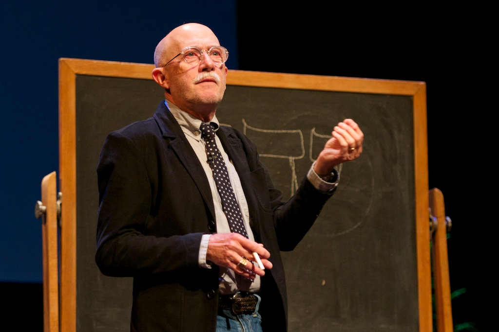 Rabbi Lawrence Kushner on stage at the 2016 Festival of Faiths.